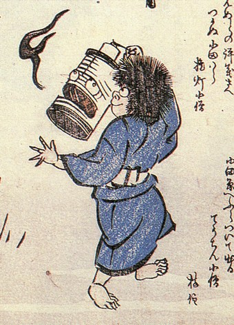 Chōchin-kōzō from Kyōka Hyaku Monogatari